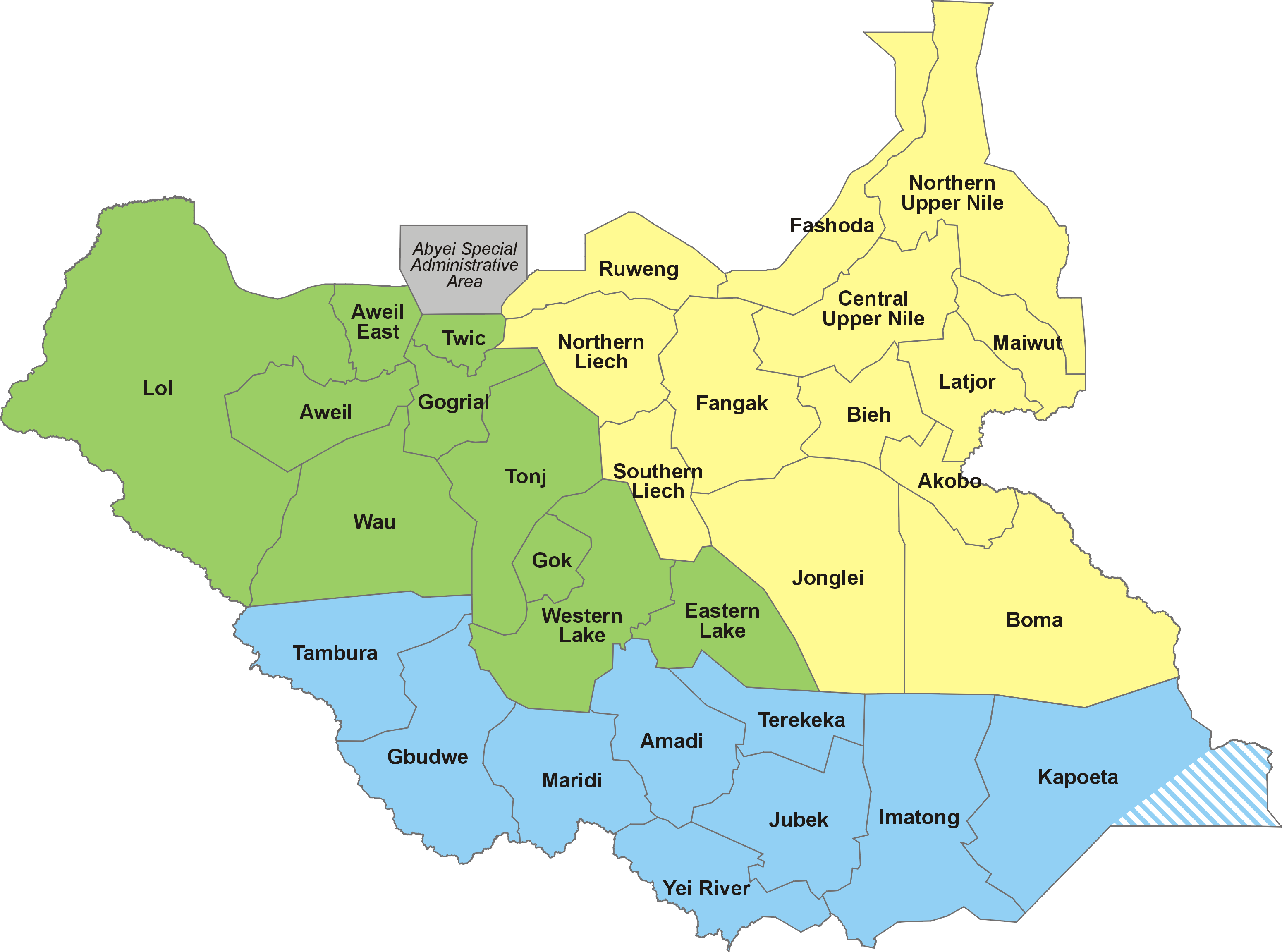 32 states of South Sudan within regions (historical provinces) as of 2018